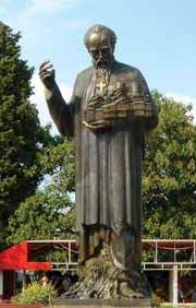 Tome Serafimovski's monument representing St. Clement of Ohrid (2005)